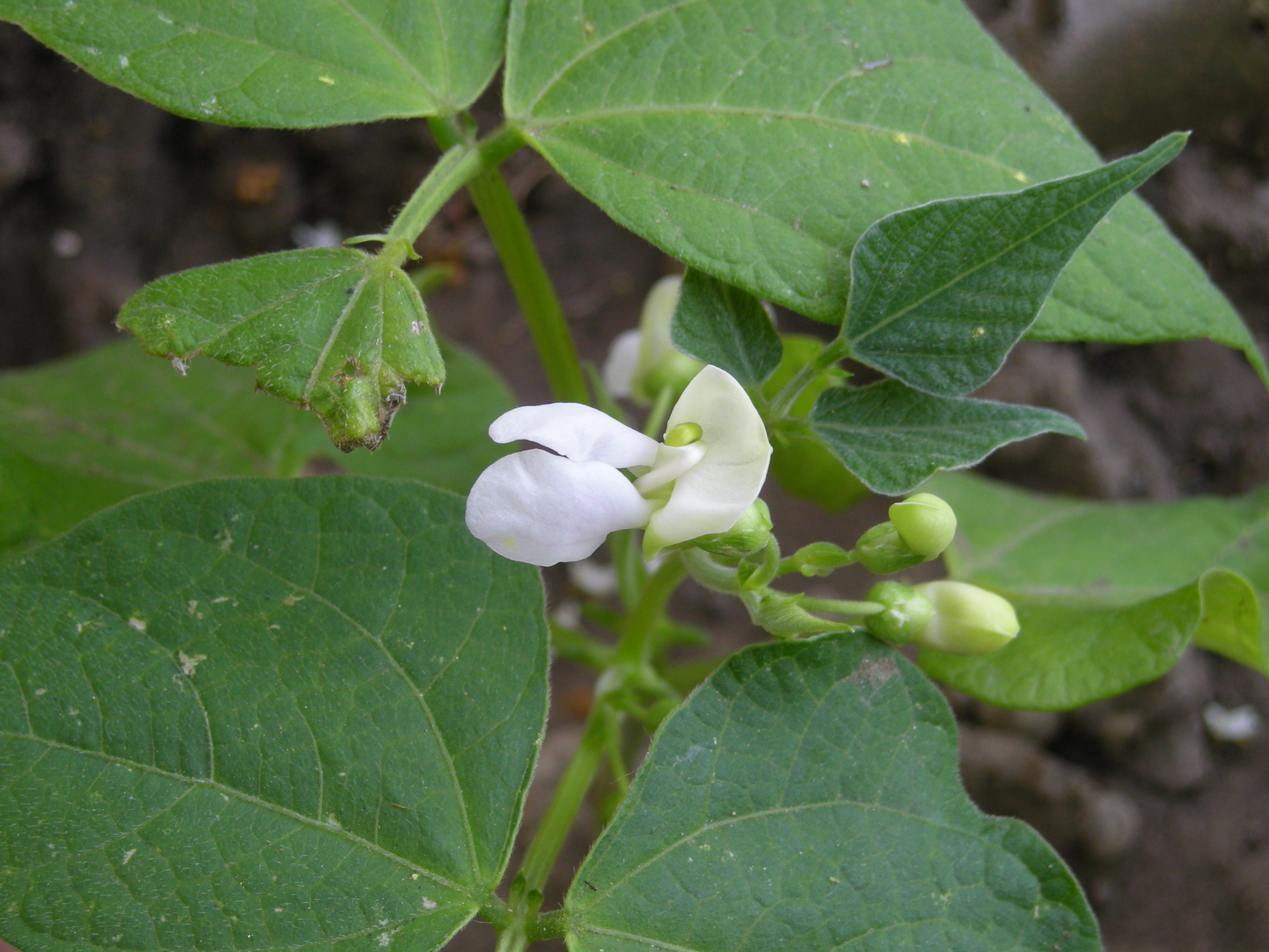 bean's flower